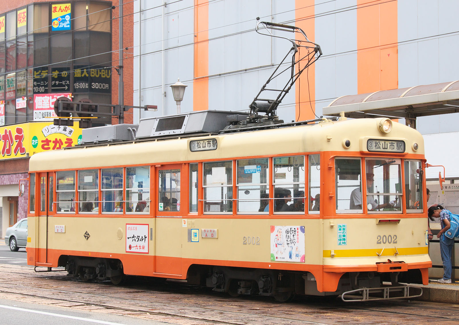 Iyo Railway type Moha-2000 (2002) tram car at O-kaido.